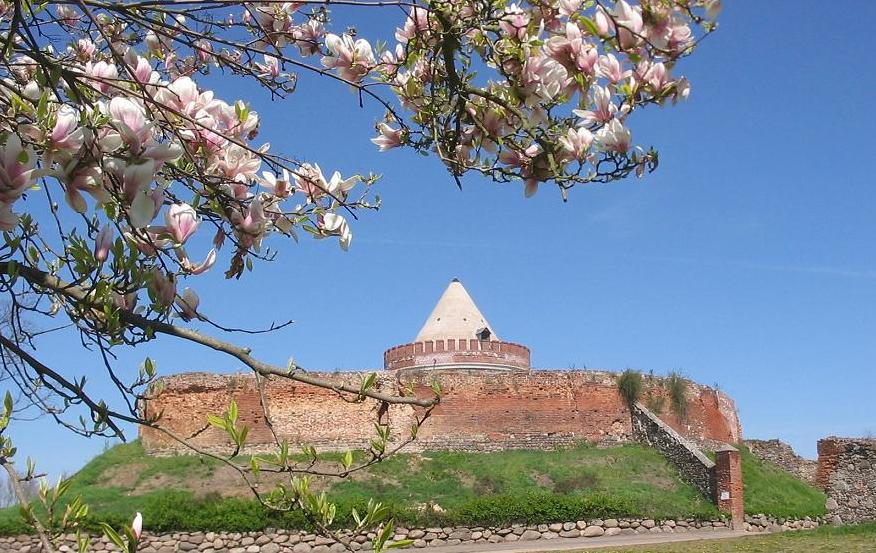 Castle Lindau, probably built in 9th/10th century. First mentioned in1179. Lindau is a small town in the Nature park Fläming in the district Anhalt-Bitterfeld, state Saxony-Anhalt, Germany.